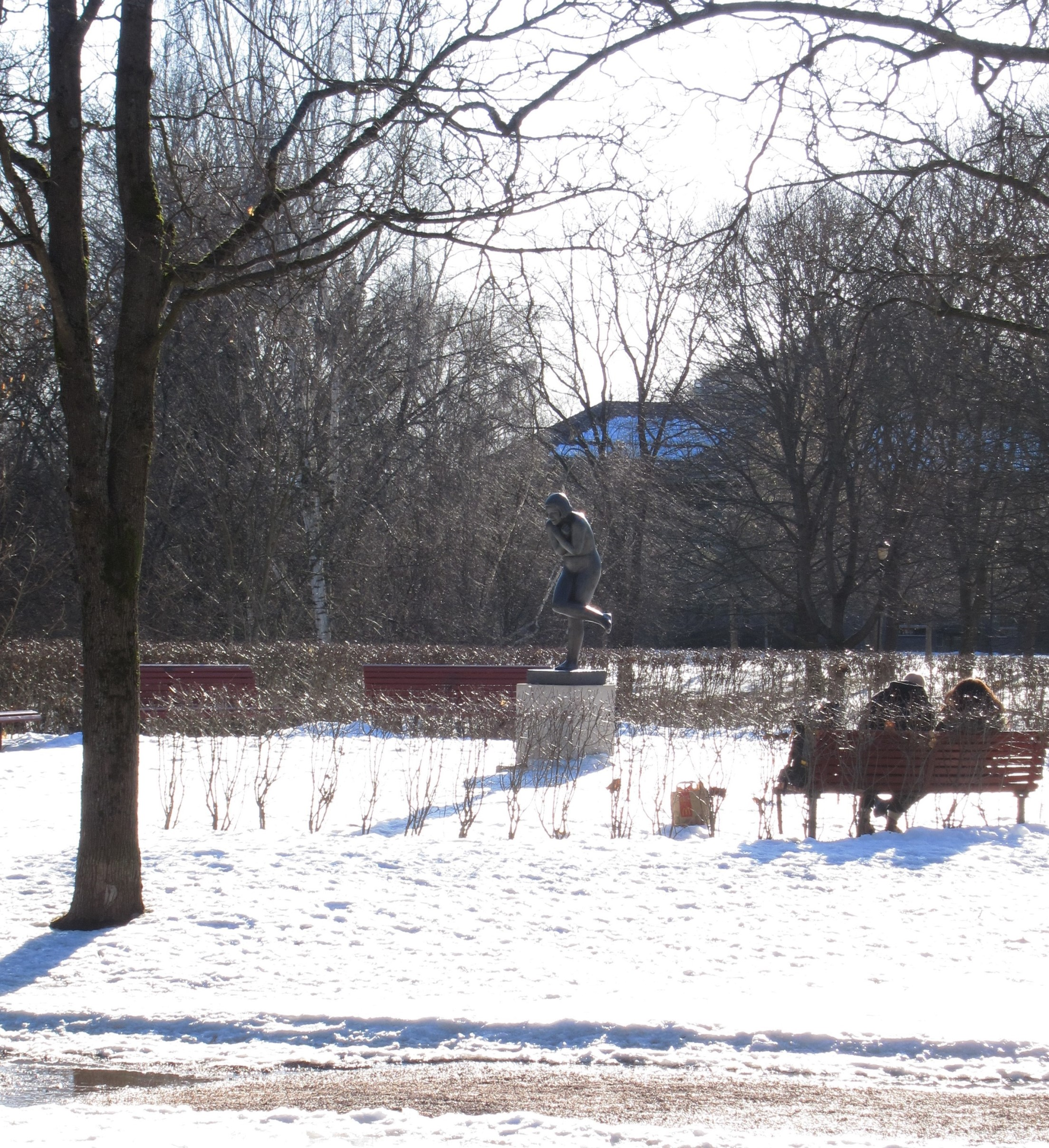 Section of Frogner park where Gustav Vigeland's "surprised" is on permanent display.